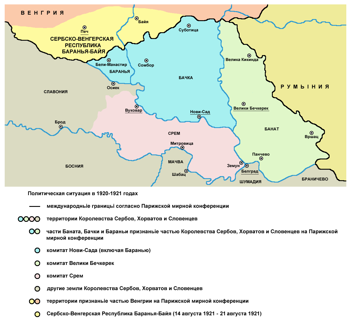 historical map of Banat, Bačka, Baranja and Syrmia within the Kingdom of Serbs, Croats and Slovenes in 1920-1921 and short-lived Baranya-Baja Republic in 1921